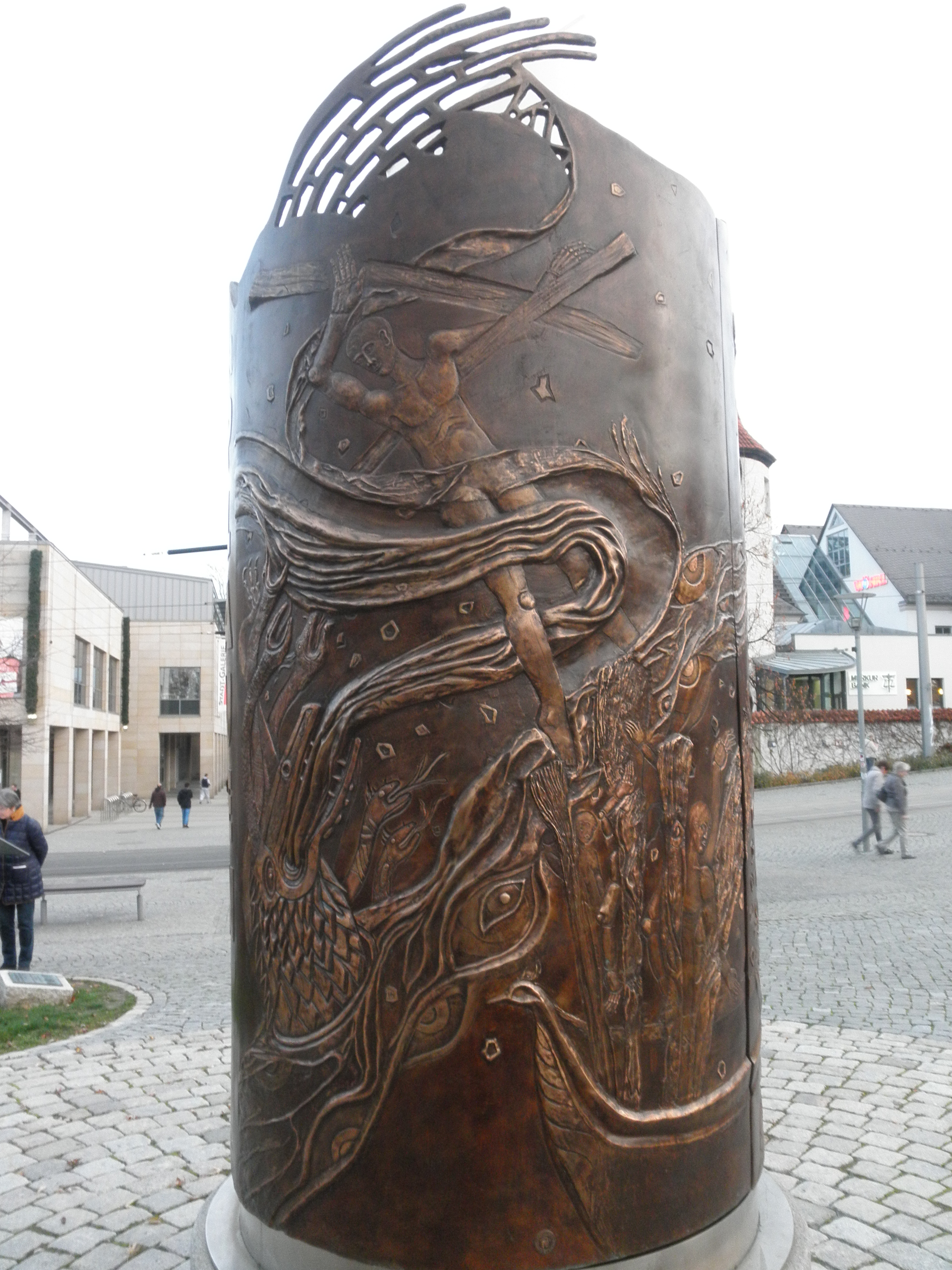 Wendedenkmal in Plauen in Saxony